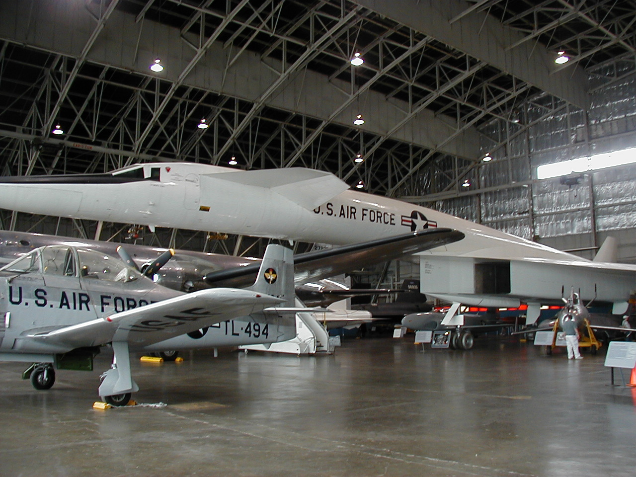 North American XB-70A Valkyrie Ser. No 62-0001 on display at Wright-Patterson AFB in Dayton, OH, June, 2003